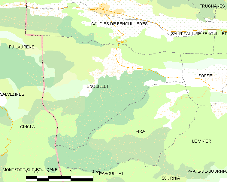 Map of French municipality